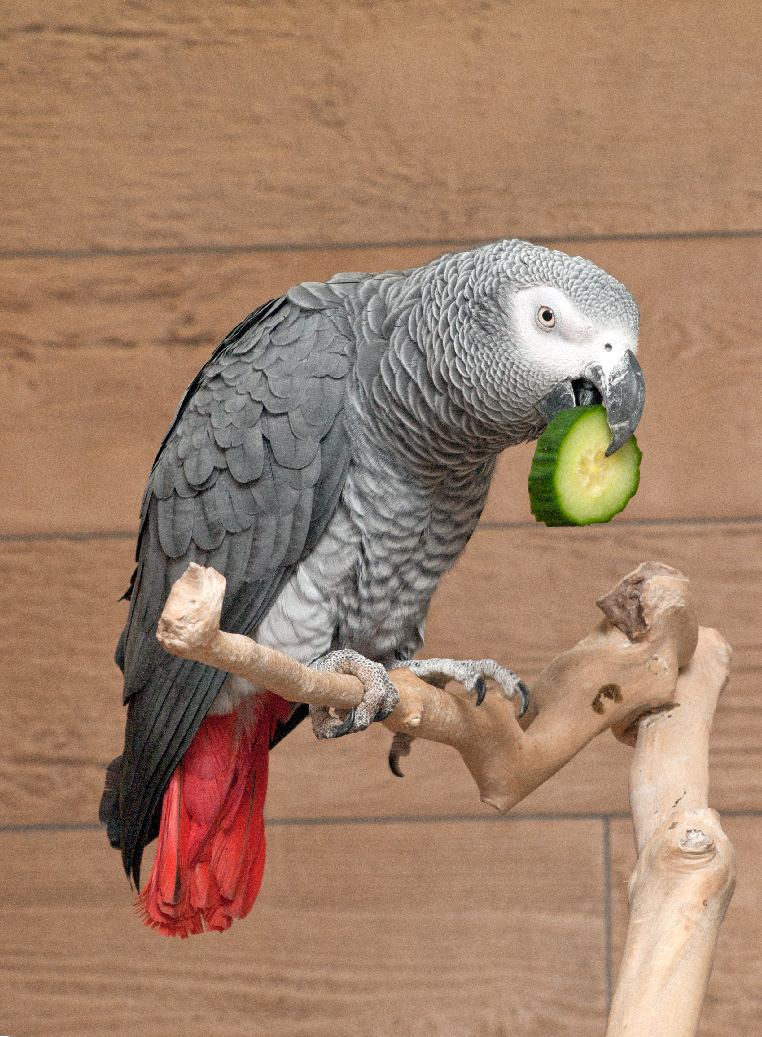 African grey parrot pet male named John eating cucumber (Psittacus erithacus)